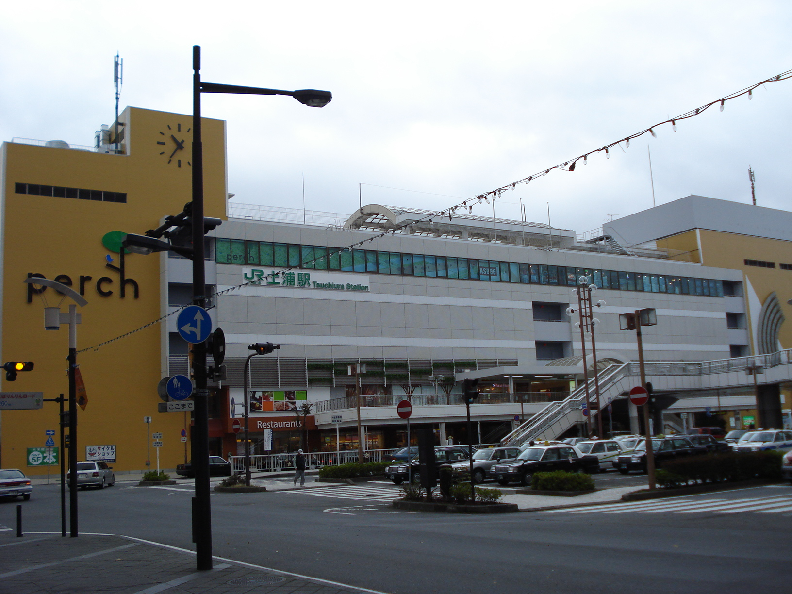 Jōban line Tsuchiura Station west entrance building (Station Shopping center "perch tsuchiura")